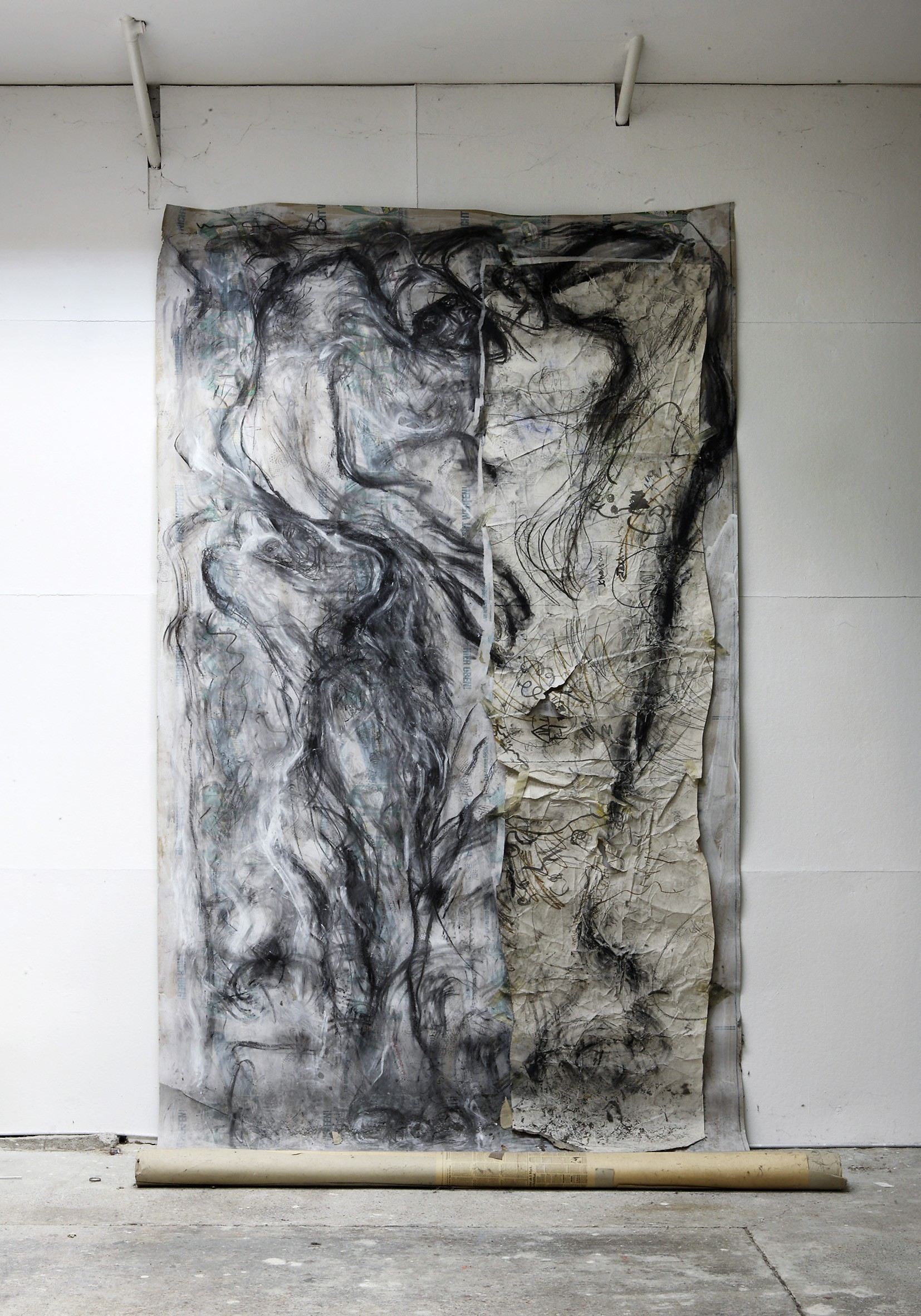 From_the_cycle_Grosse_und_grossartige_Zeichnungen